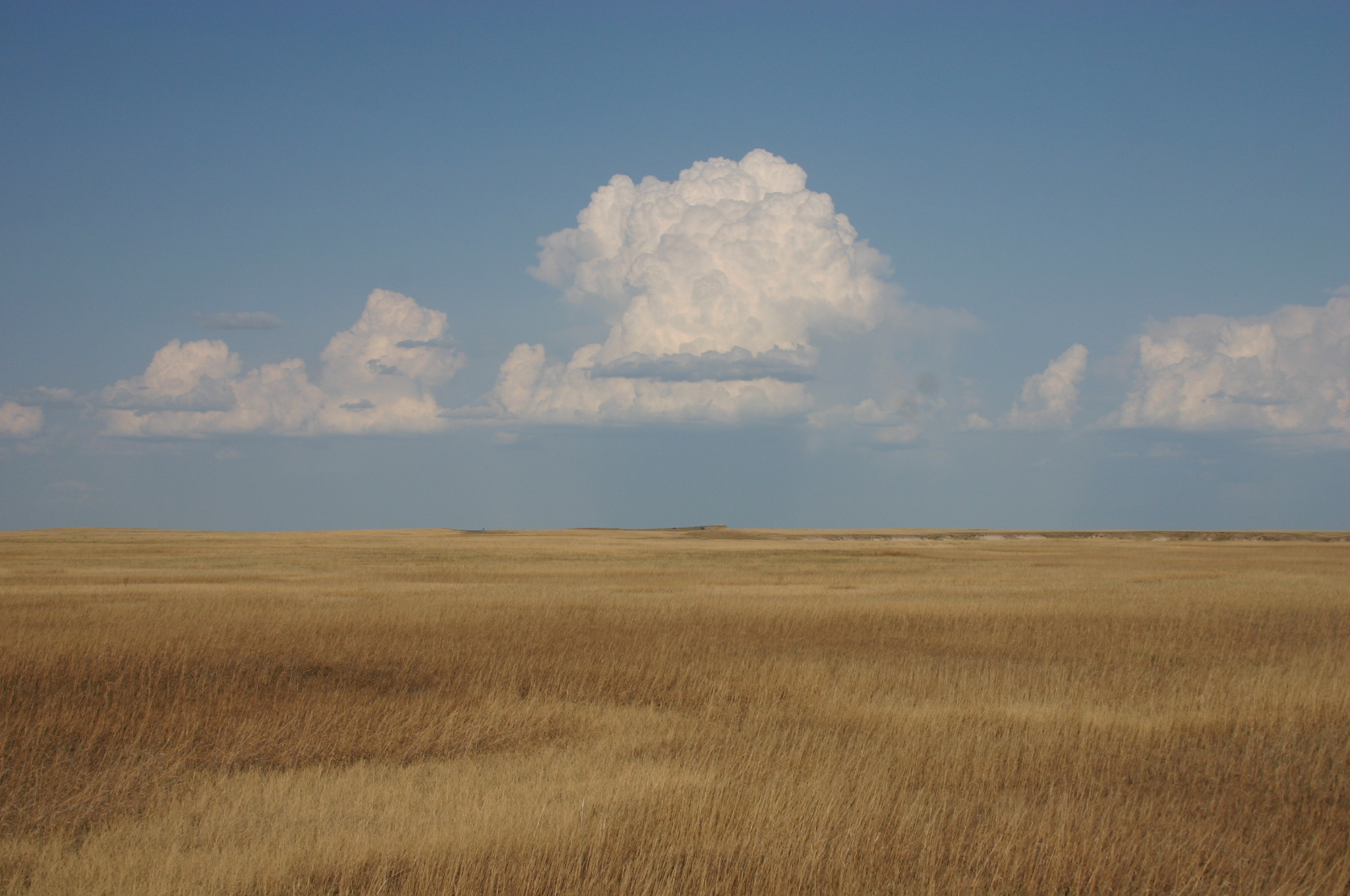 Cumulus clouds towering over yellow prairie.